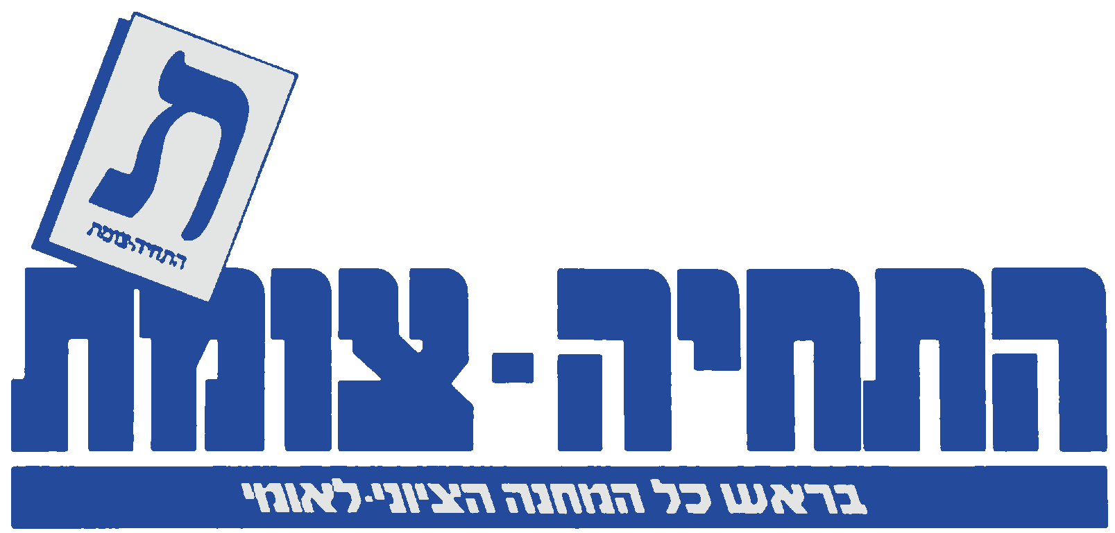 Logo featured on posters and flyers of the Tehiya-Tzomet List during the 1984 Israeli Legislative Election.